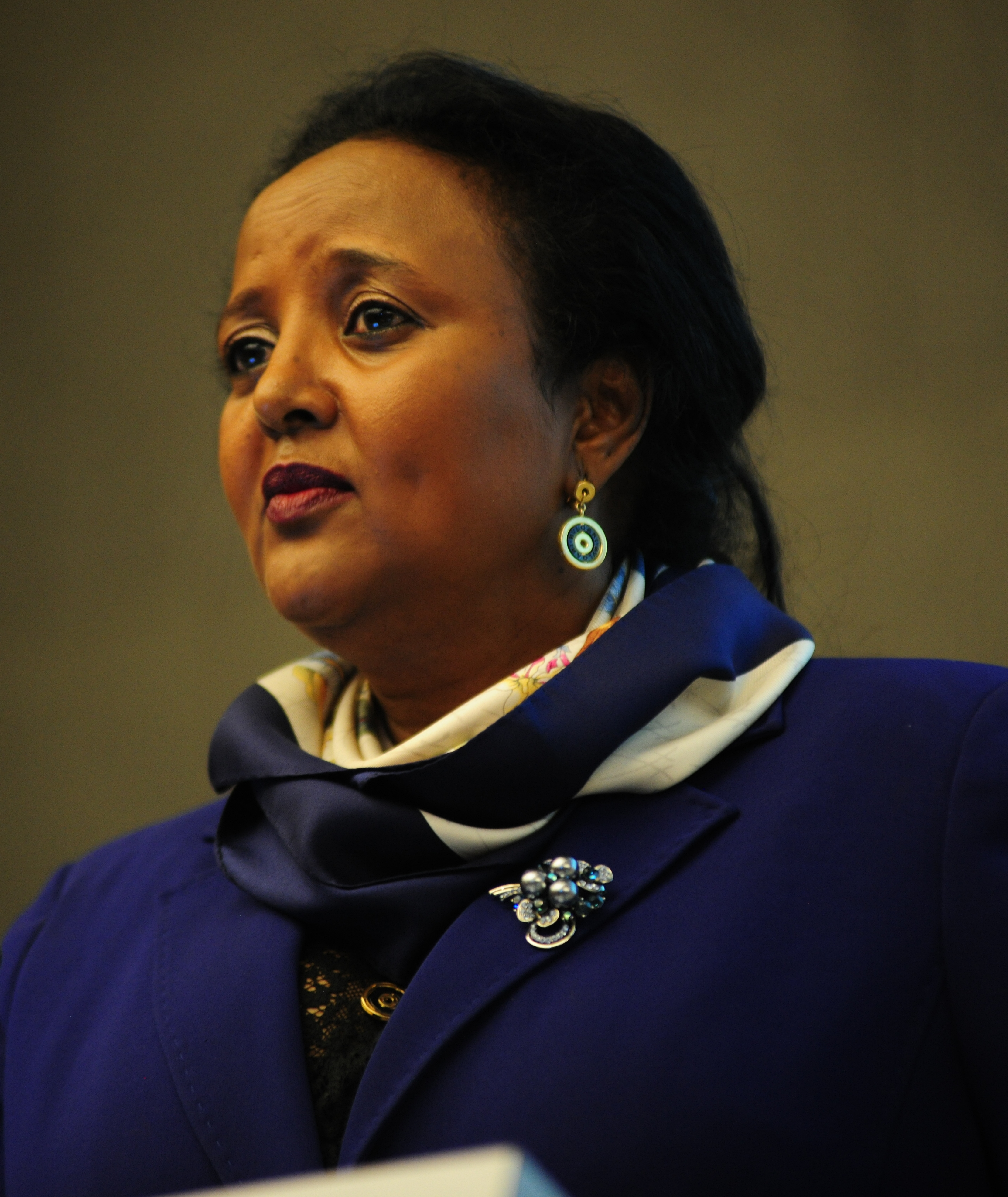 Amina Mohamed